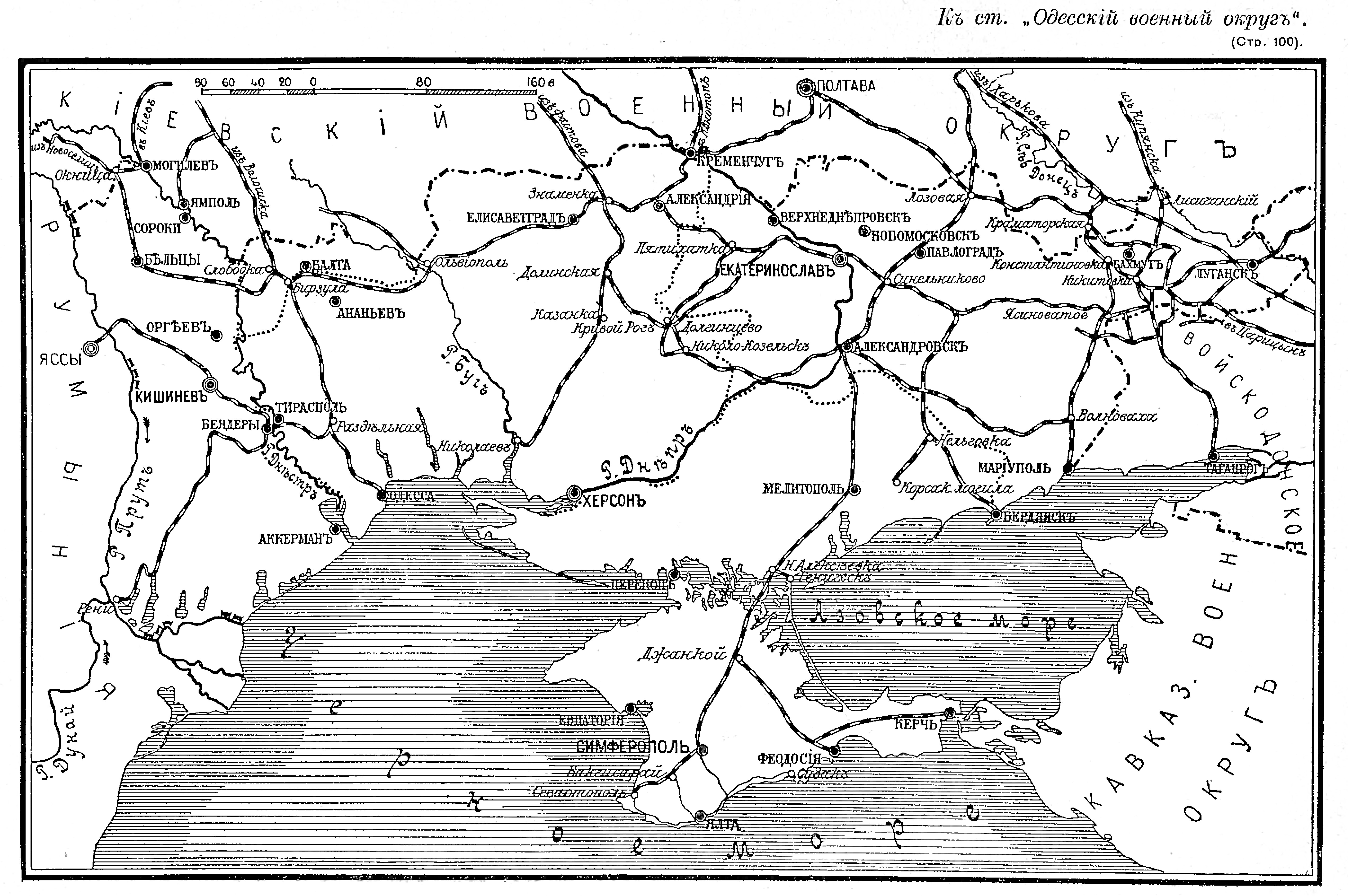 Odessa Military District. Military Encyclopedia. Vol. 17 (Saint-Petersburg, 1914).